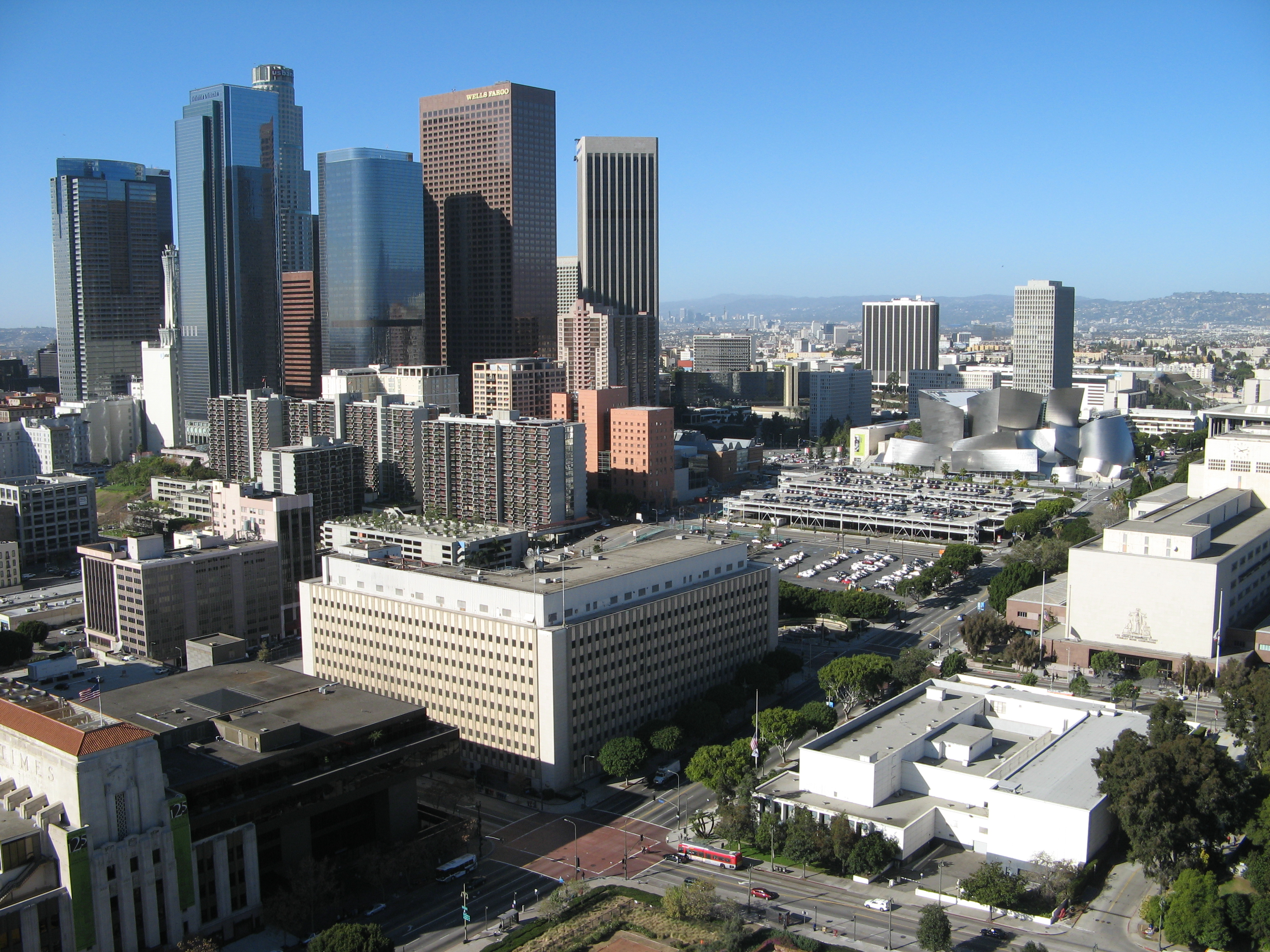 Bunker Hill in downtown Los Angeles as seen from Los Angeles City Hall. Photographed and uploaded by user:Geographer